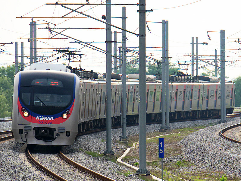 KORAIL 331000series EMU